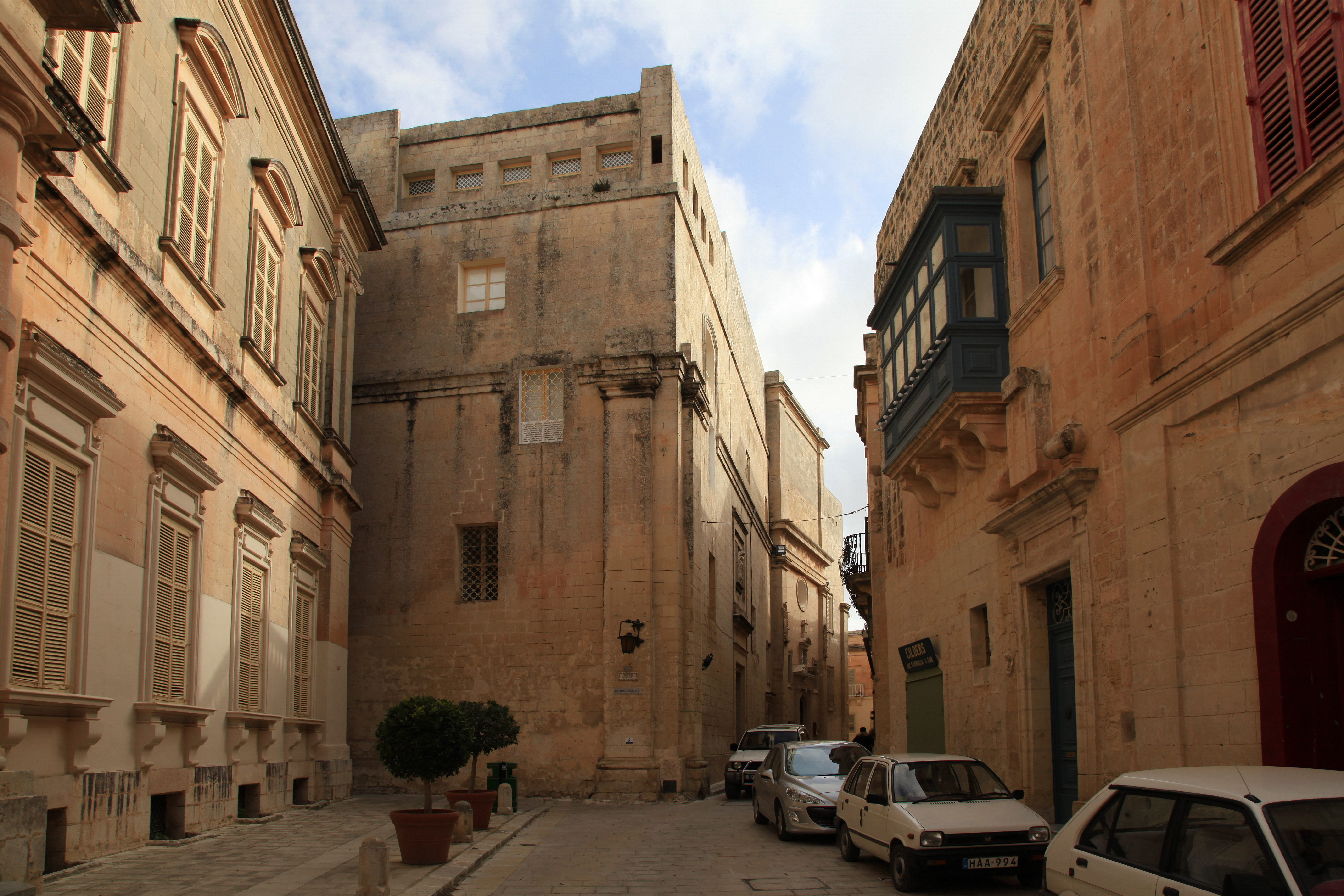 St. Peter's Monastery, Triq Villegaignon in Mdina, Malta